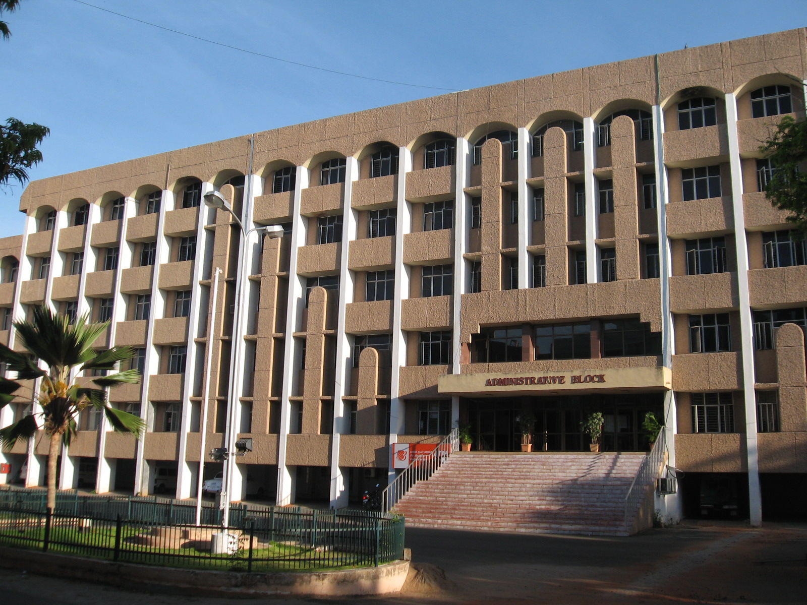 Self taken picture of administrative block of JIPMER